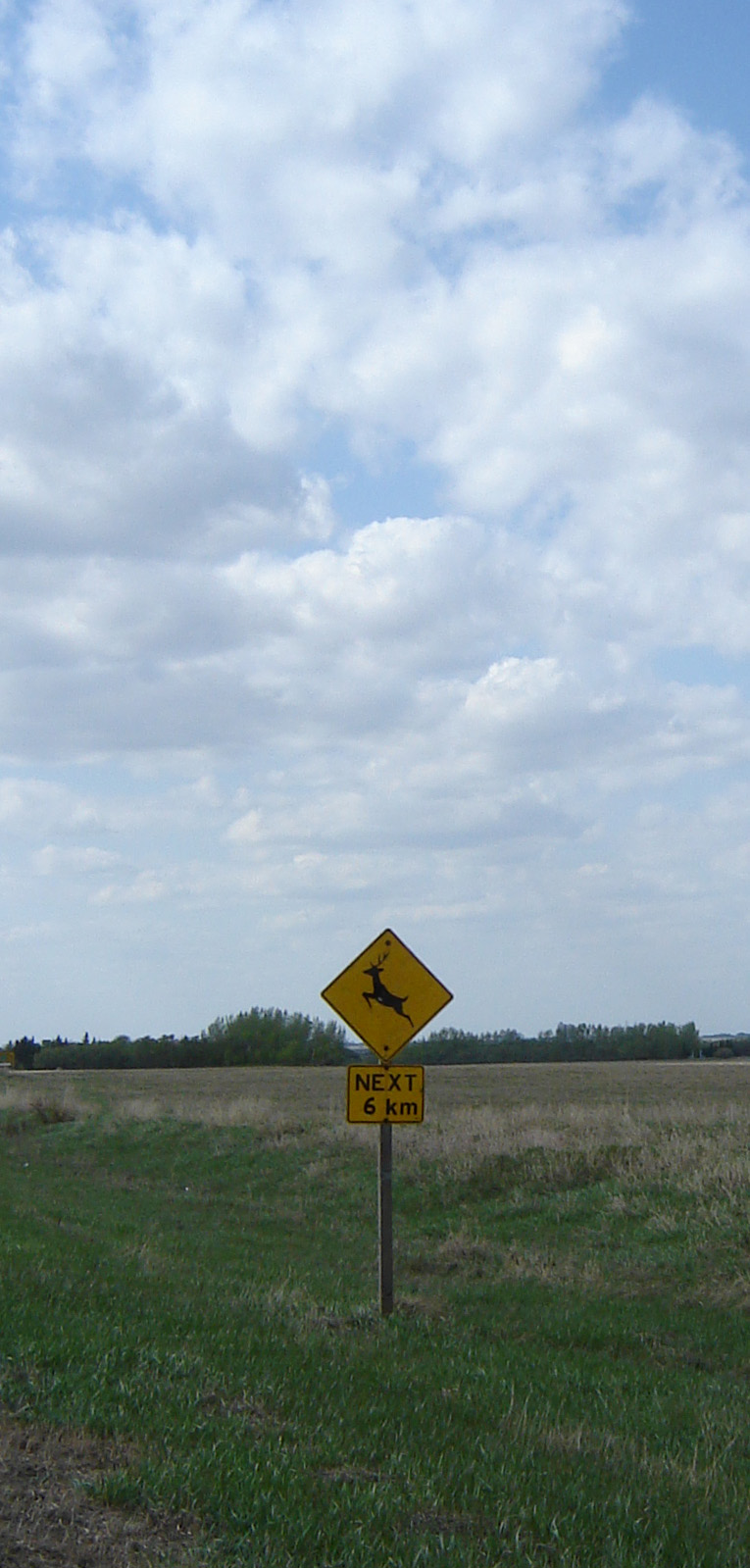 Deer Crossing road sign located at Saskatchewan Highway 16 or Yellowhead Highway